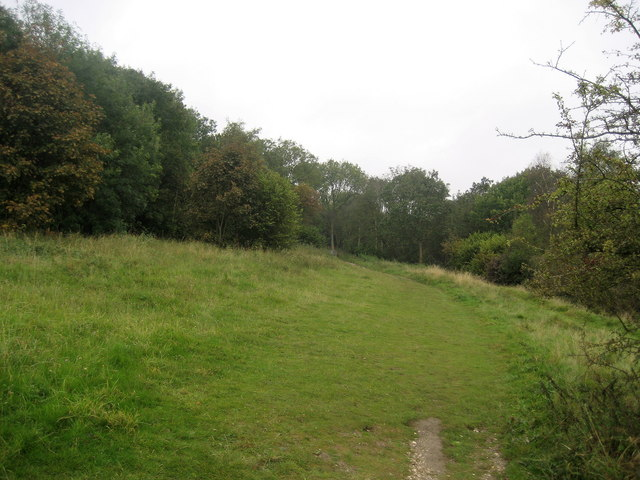 Ridgeway on Bacombe Hill Ever upwards through woods and on grassy slopes, as the Ridgeway climbs slowly towards the summit of Coombe Hill.